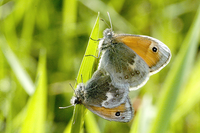 Picture taken in Commanster, Belgian High Ardennes . Species: Coenonympha pamphilus couple